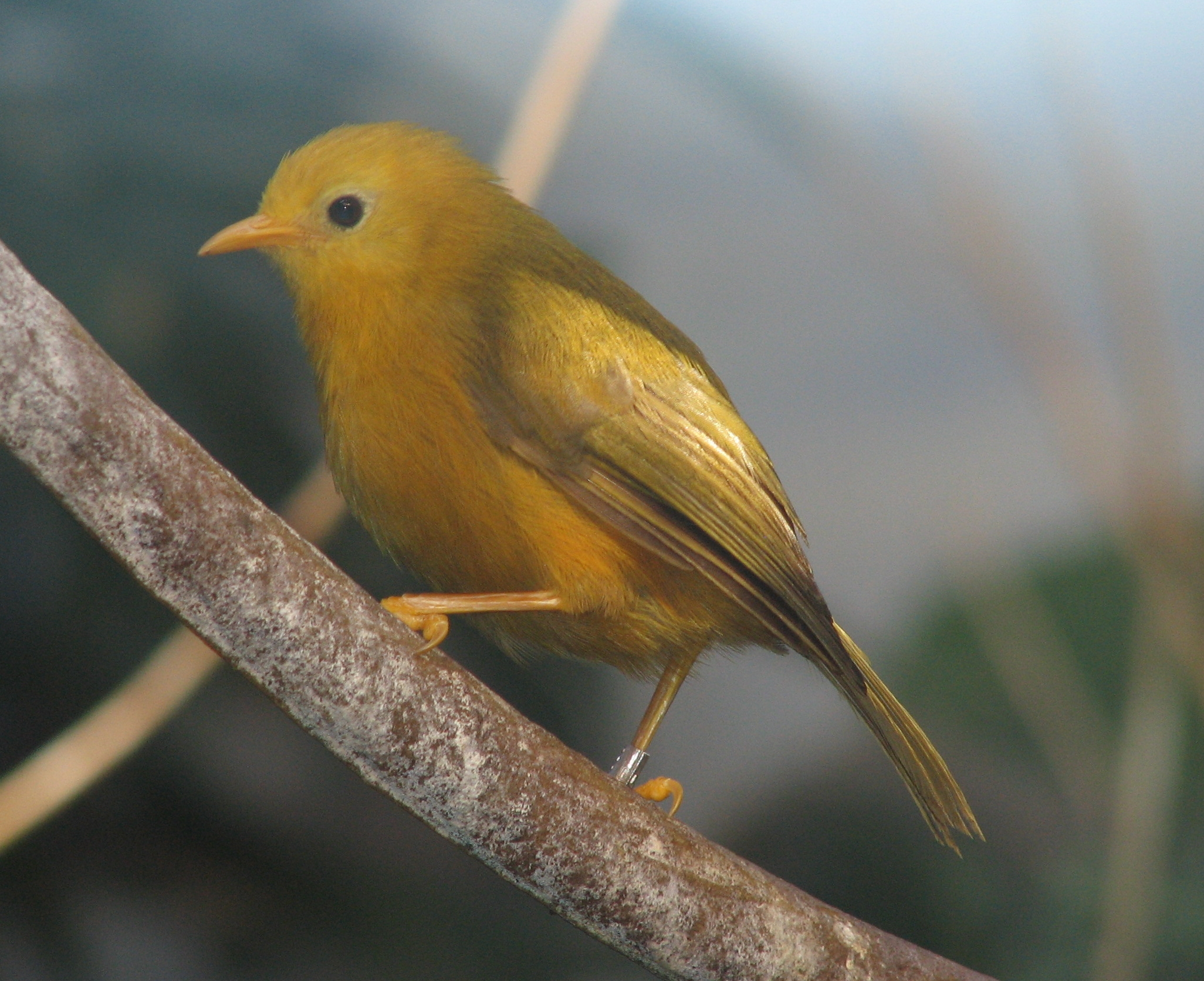 Golden White Eye (Cleptornis marchei) at Louisville Zoo.